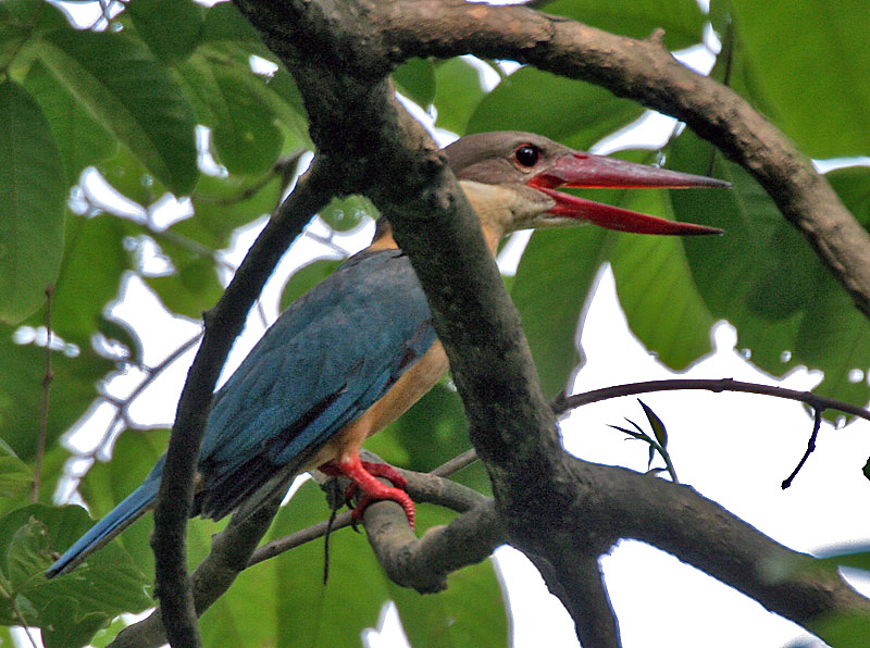 Stork-billed Kingfisher Pelargopsis capensis in Kolkata, West Bengal, India.